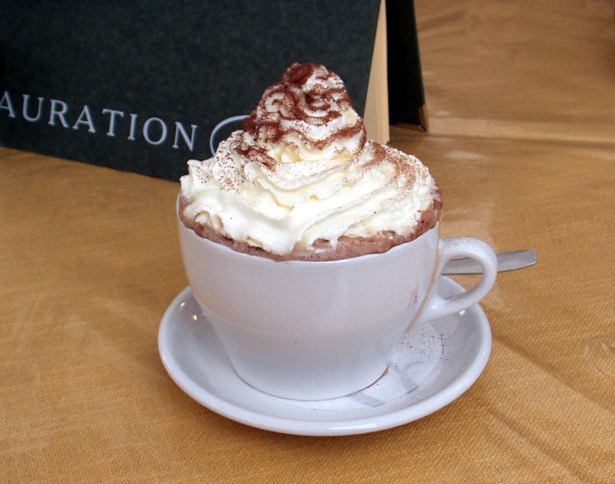 Cup of hot chocolate with whipped cream